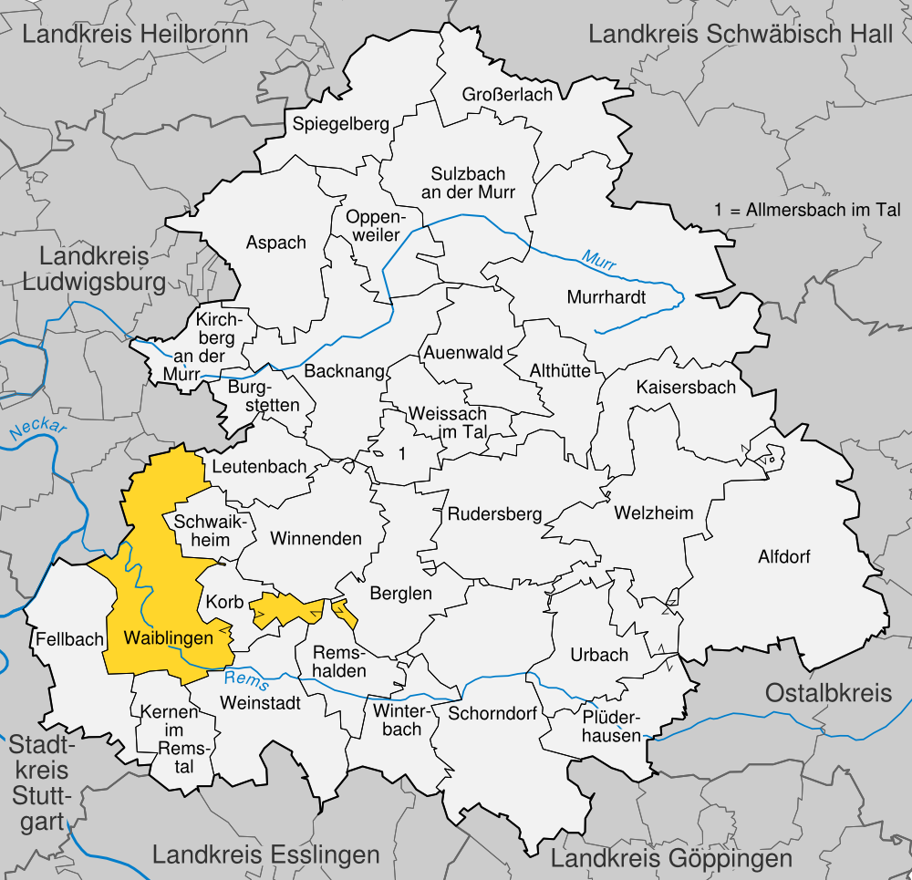 position of Waiblingen within the Rems-Murr-Kreis, Baden-Württemberg, Germany